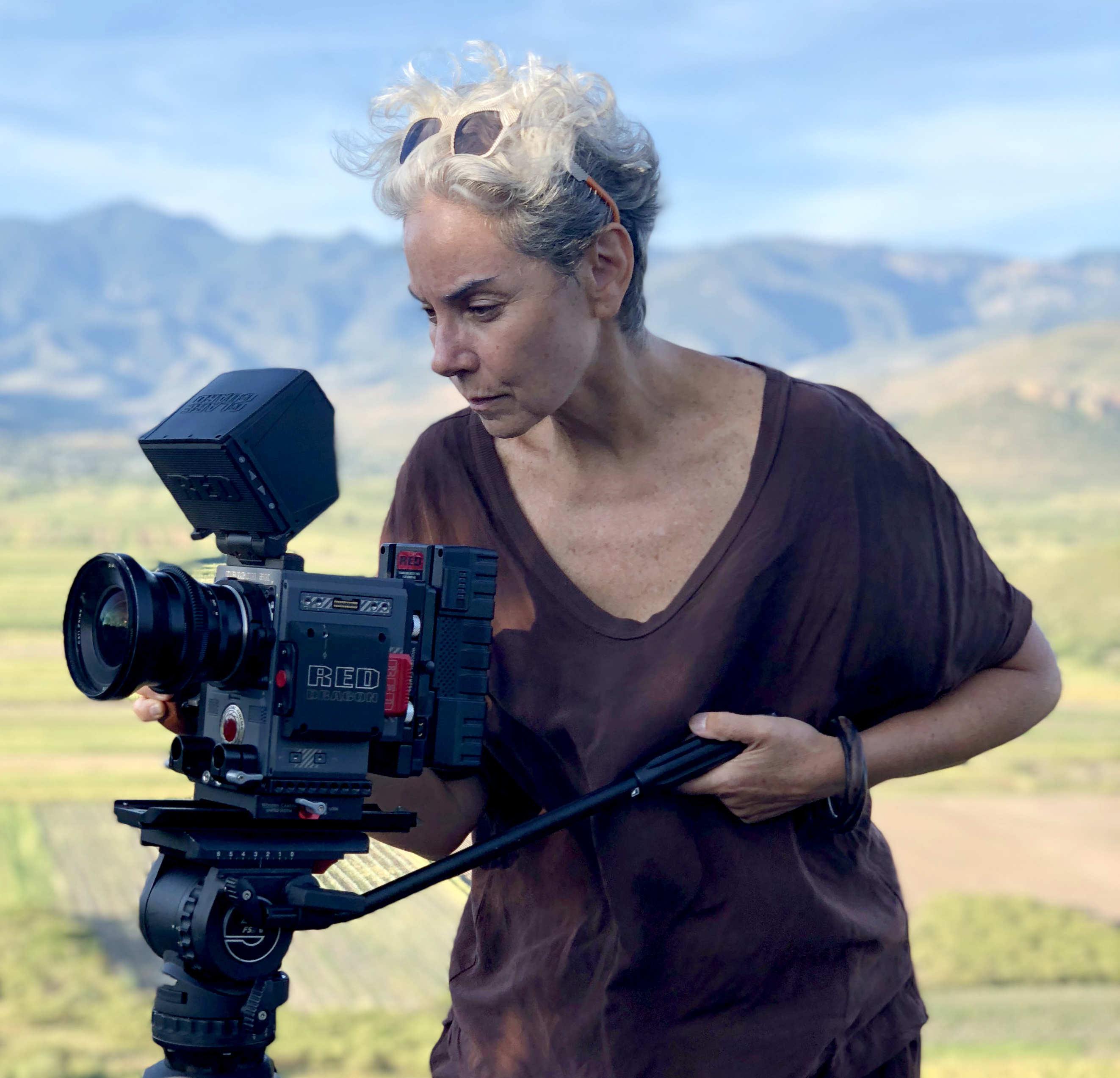 A portrait by Director of Photography Gabriel Noguez during the shooting of The Ascent of Weavers in Oaxaca, Mexico in 2018